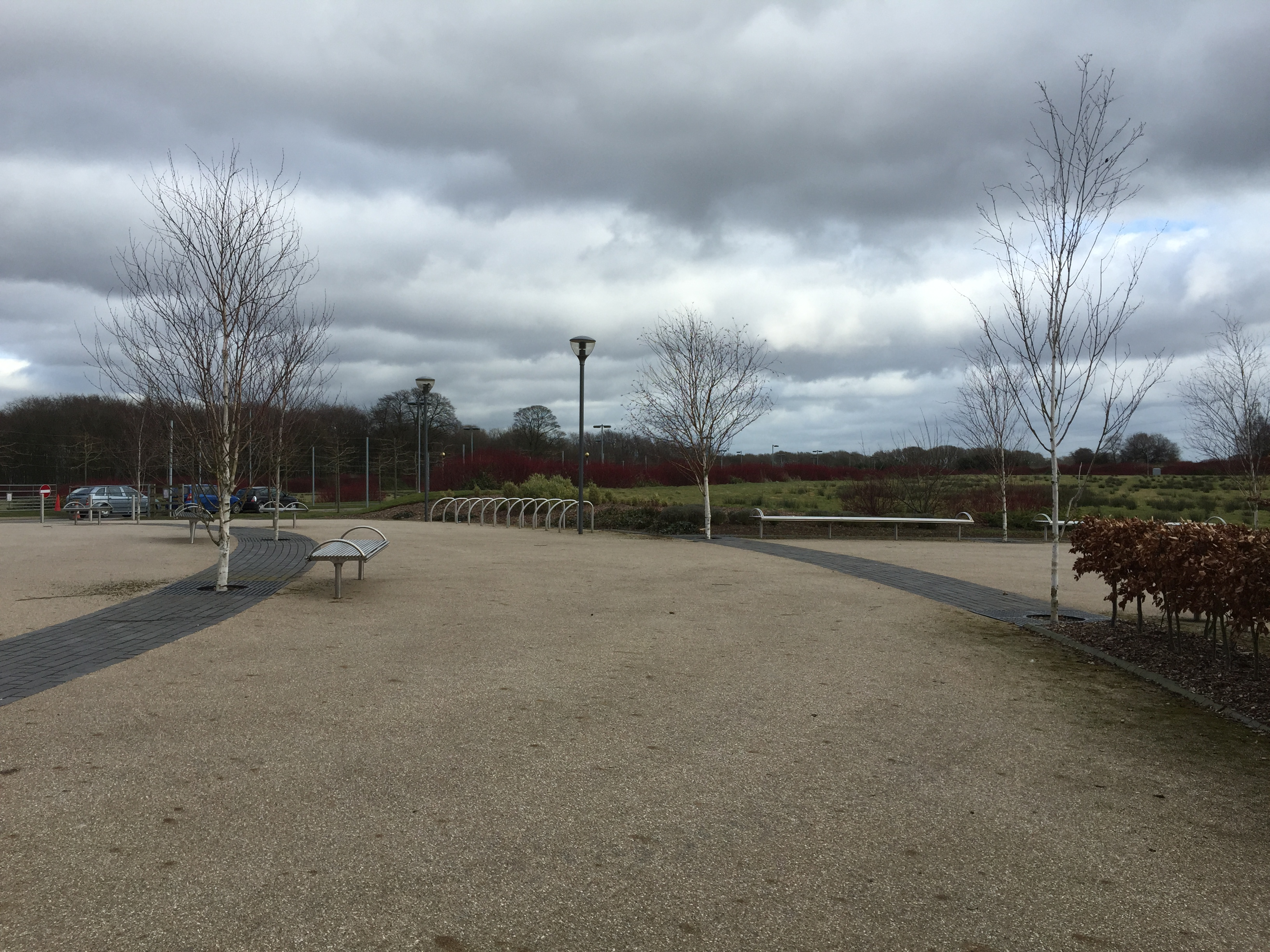 Benches and Bike Racks Infrastructure